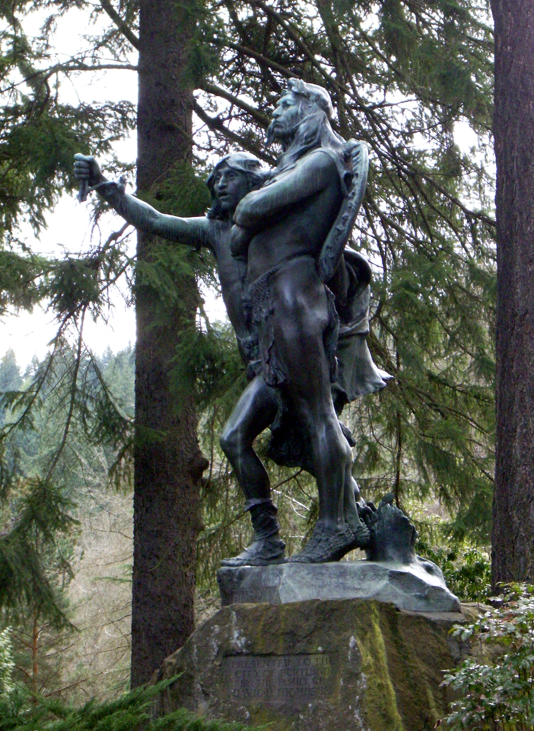 Statue known as "Coming of white man" in Washington Park, Portland, featuring Chief Multnomah, viewed from the NNE.